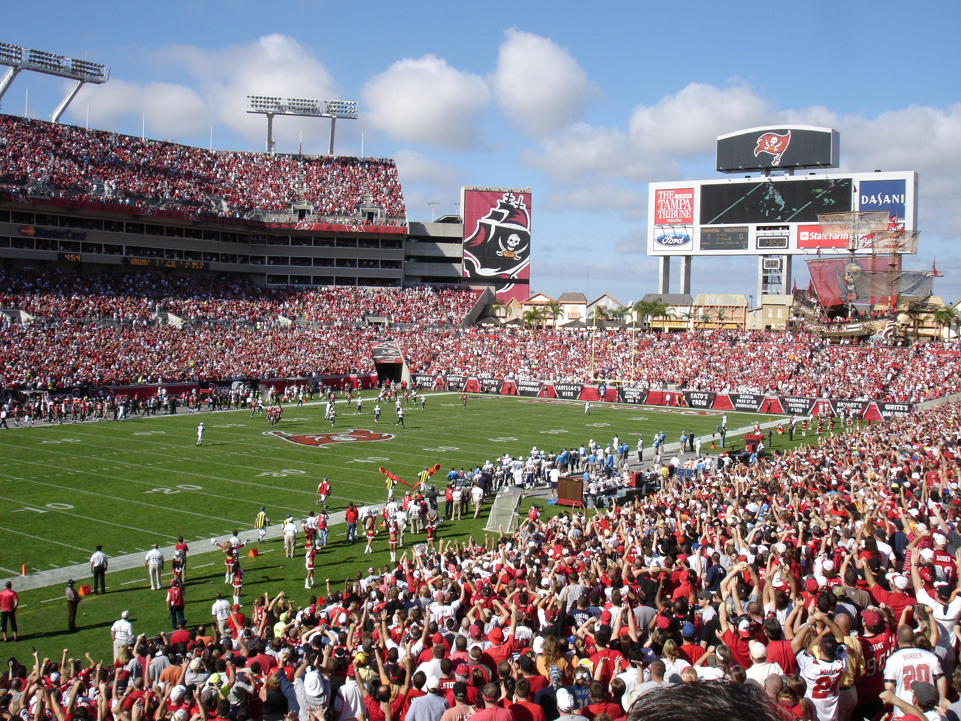 Raymond James Stadium. The Buccaneers' home field in Tampa. The most notable feature is the pirate ship, which 'fires' for every point scored and after big plays. Seen here playing the San Diego Chargers., Tampa.